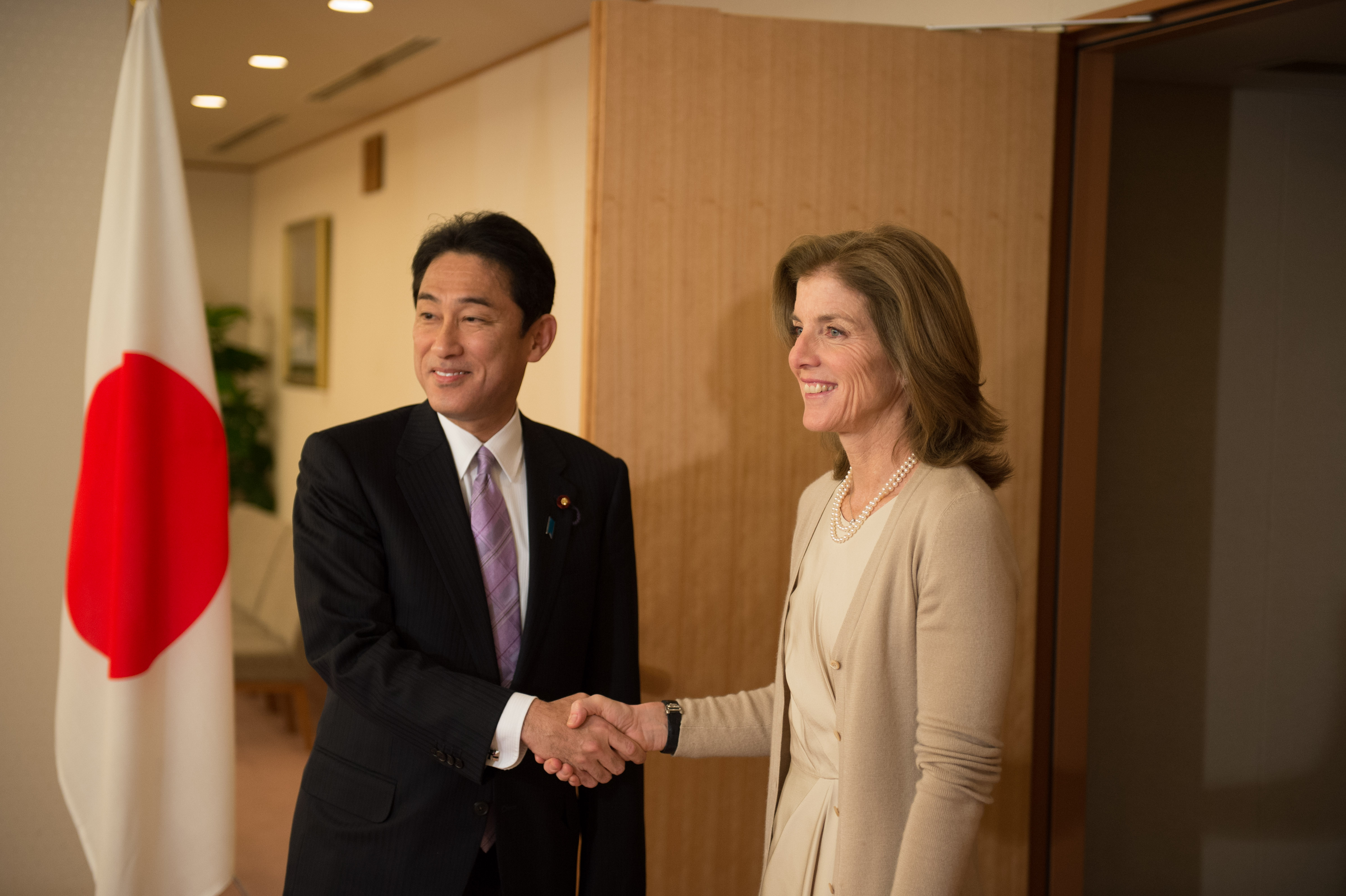 TOKYO, Japan (November 20, 2013) U.S. Ambassador to Japan Caroline Kennedy pays a courtesy call on Japanese Minister for Foreign Affairs Fumio Kishida. Foreign Minister Kishida presented Ambassador Kennedy with a gift. [State Department photo by William Ng/Public Domain]